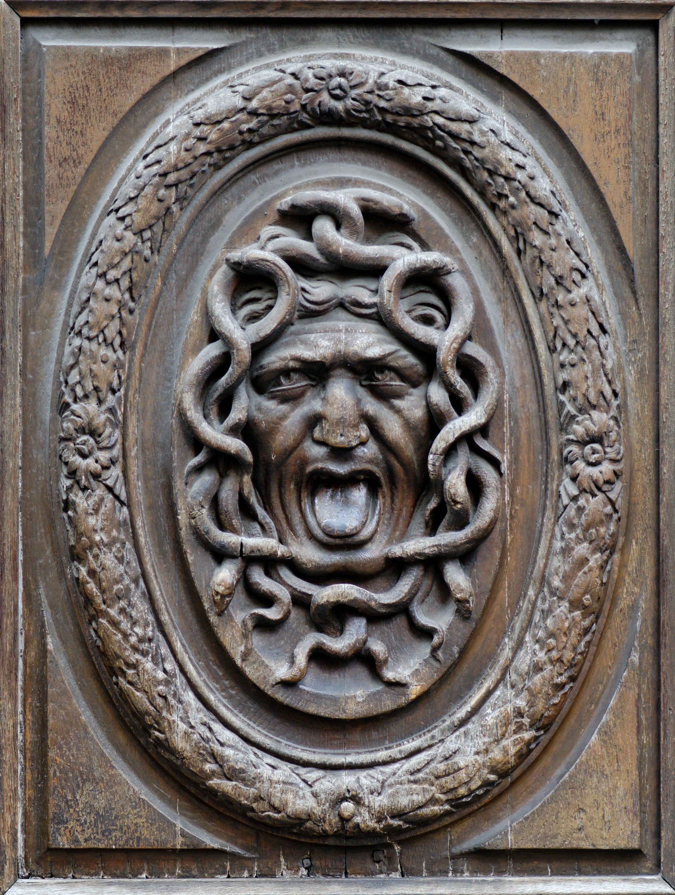 Gorgoneion (Gorgon mask) by Thomas Regnaudin (French, 1622–1706). Carved wood, ca. 1660, from the door panels of the Hôtel Amelot de Bisseuil, 47 rue Vieille-du-Temple, 4th arrondissement of Paris.